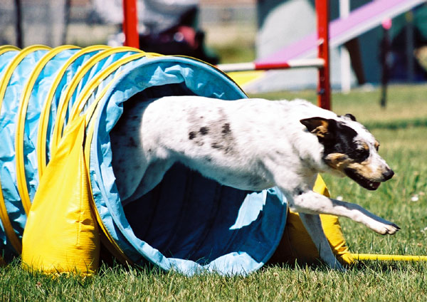 Mixed-breed dog doing dog agility Mix of a Queensland Heeler and Australian Shepherd. Taken by Elf